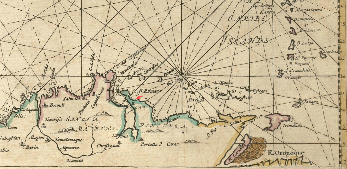 Detail of map: A chart of the West Indies from Cape Cod to the River Oronoque. Scale ca. 1:9,500,000